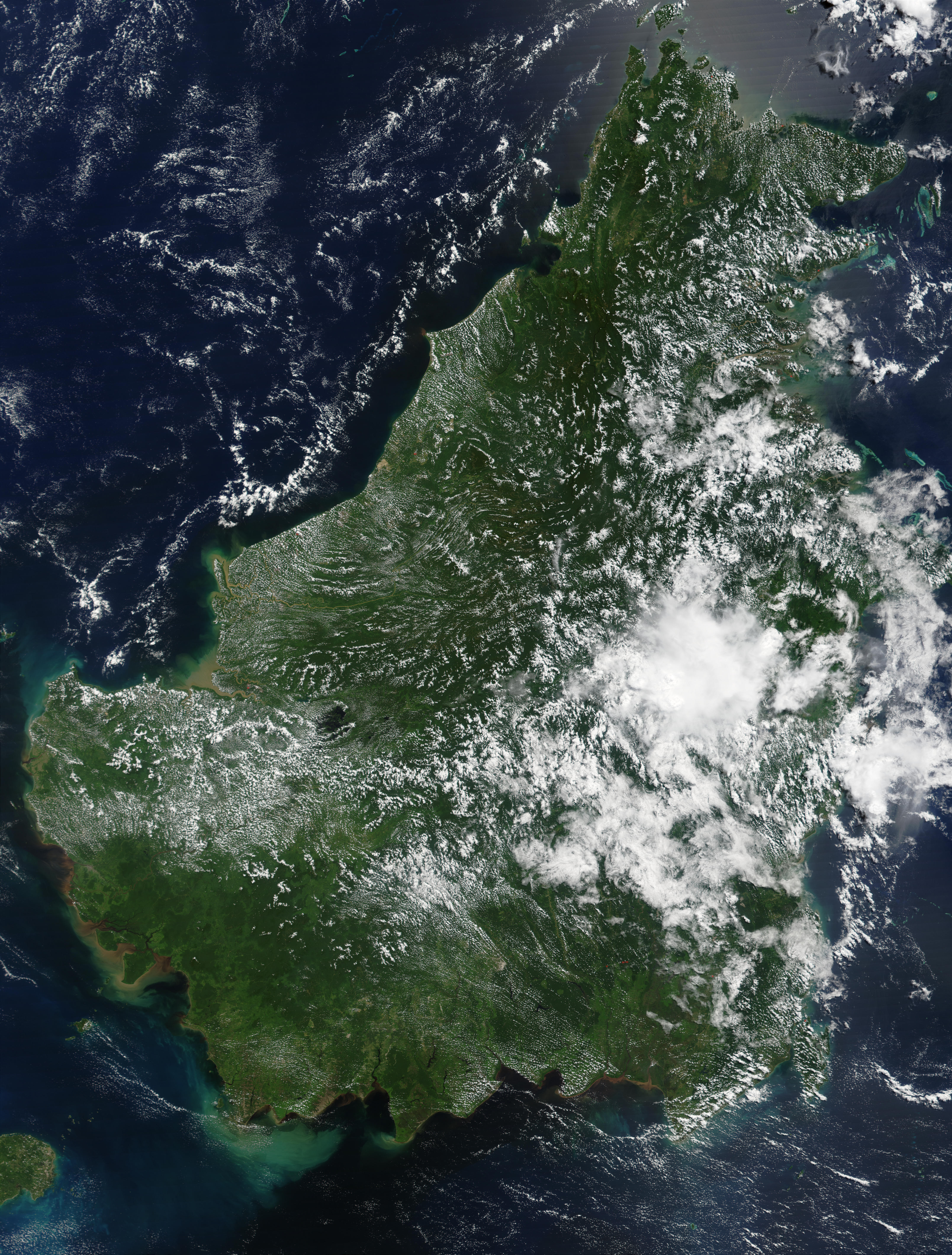 These true-color images of Indonesia were acquired by the Moderate Resolution Imaging Spectroradiometer in mid-May 2002. Fire season was not fully underway in the region, and skies over the large island of Borneo, with Malaysia at its northwest coast, are cloud-covered, but not hazy with air pollution. The horizontally situated island of java appears to be experiencing some haze at its western end, and a few scattered fires (red dots) were detected. These images were acquired on May 17 and 19, 2002.